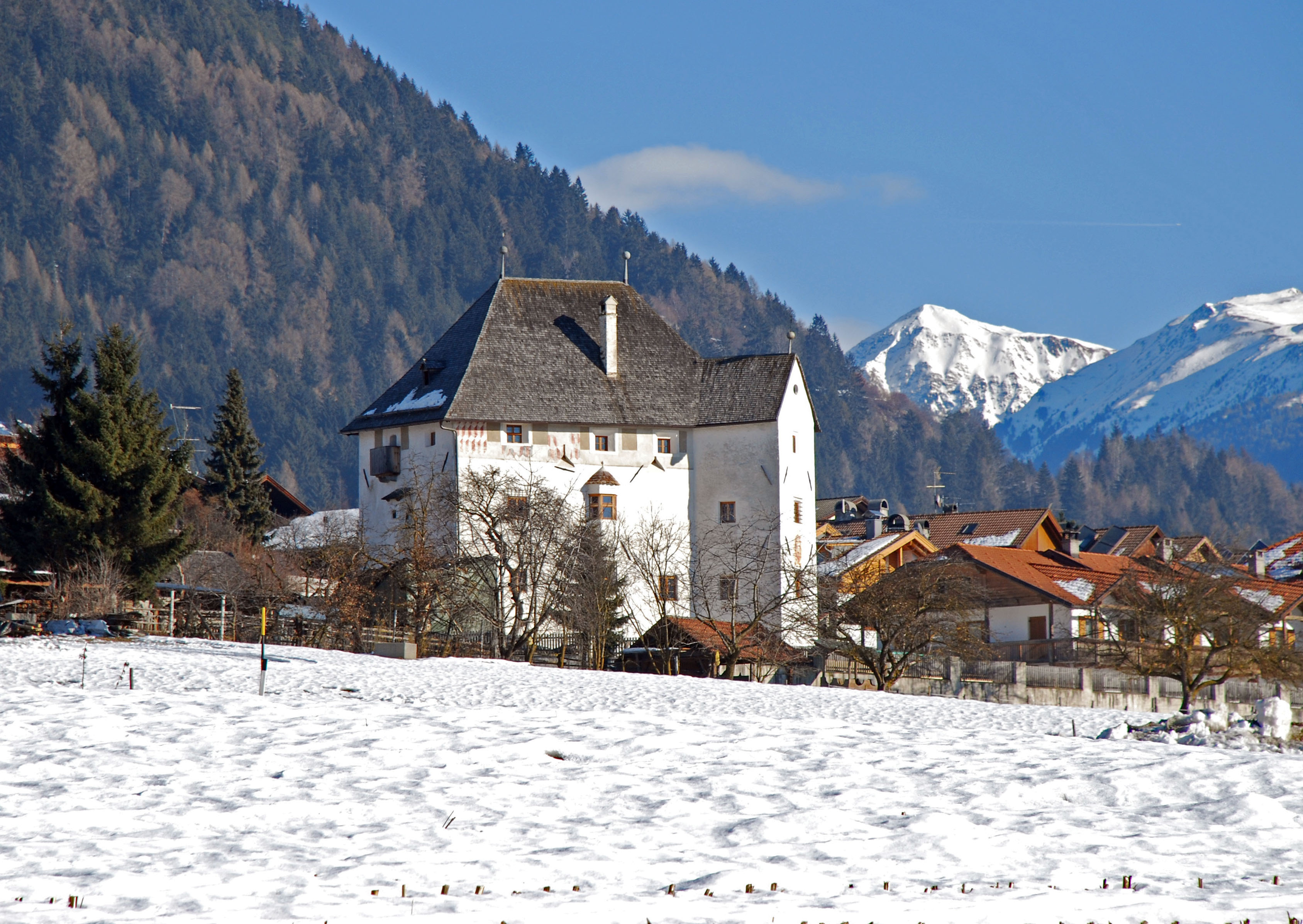 Sichelburg Castle in Falzes/Pfalzen